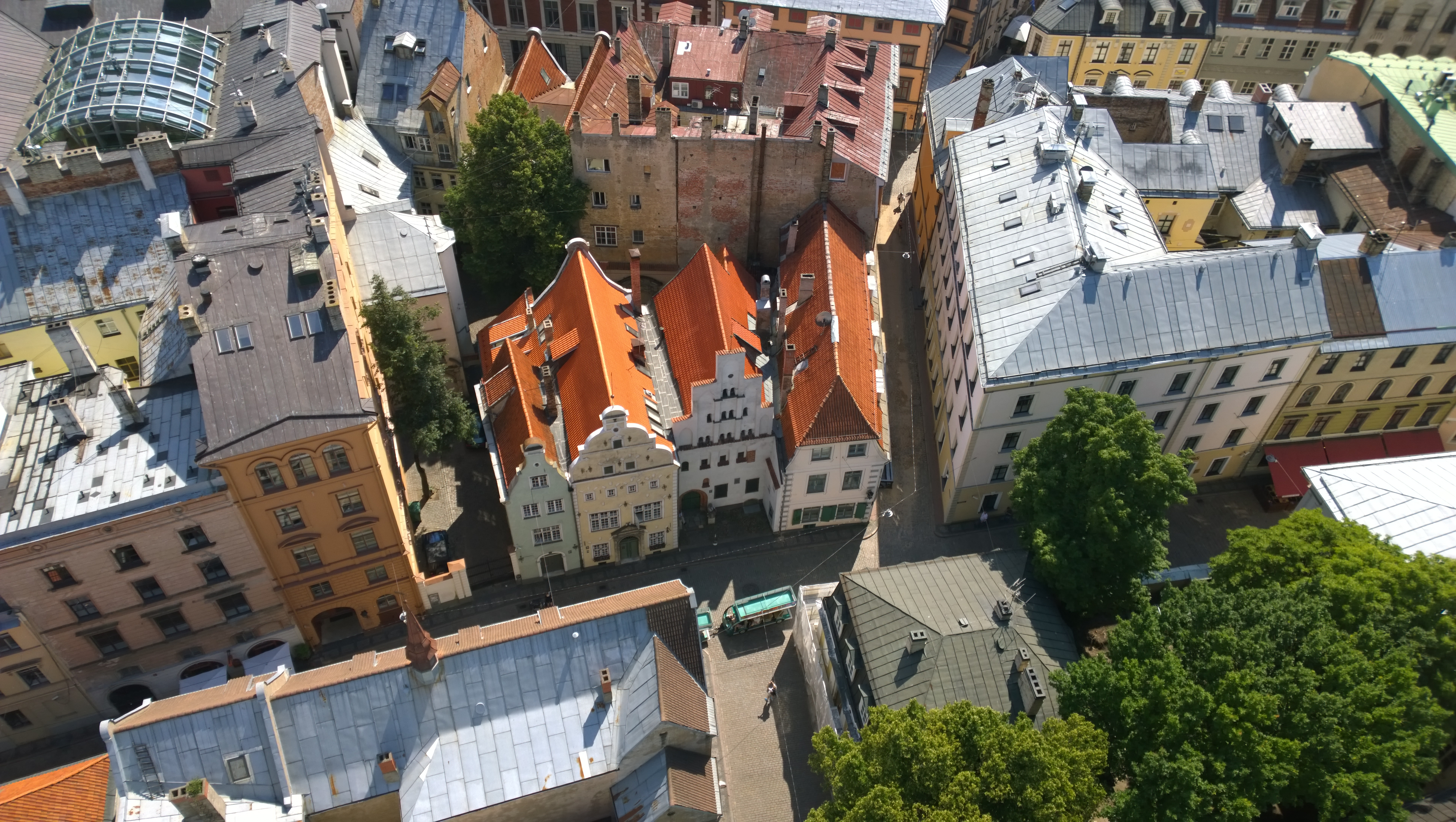 Residential building complex, Rīga, 3/5 Jēkaba street; 1 Mazā Miesnieku street; 17 Mazā Pils street; 19 Mazā Pils street; 21 Mazā Pils street; 18 Pils street; 20 Pils street; 22 Pils street